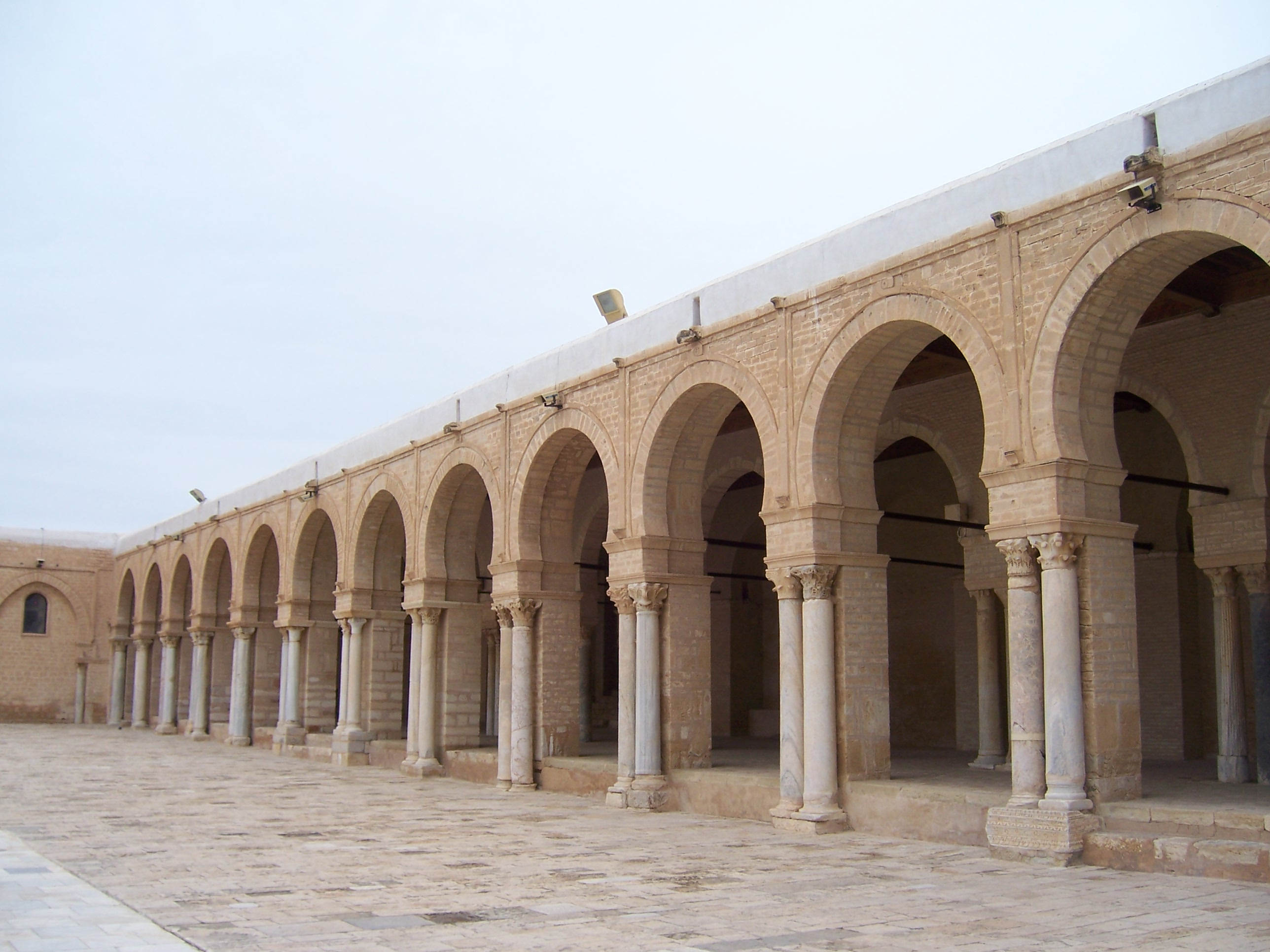 View of the portico located on the eastern side of the courtyard of the Great Mosque of Kairouan, in Tunisia.